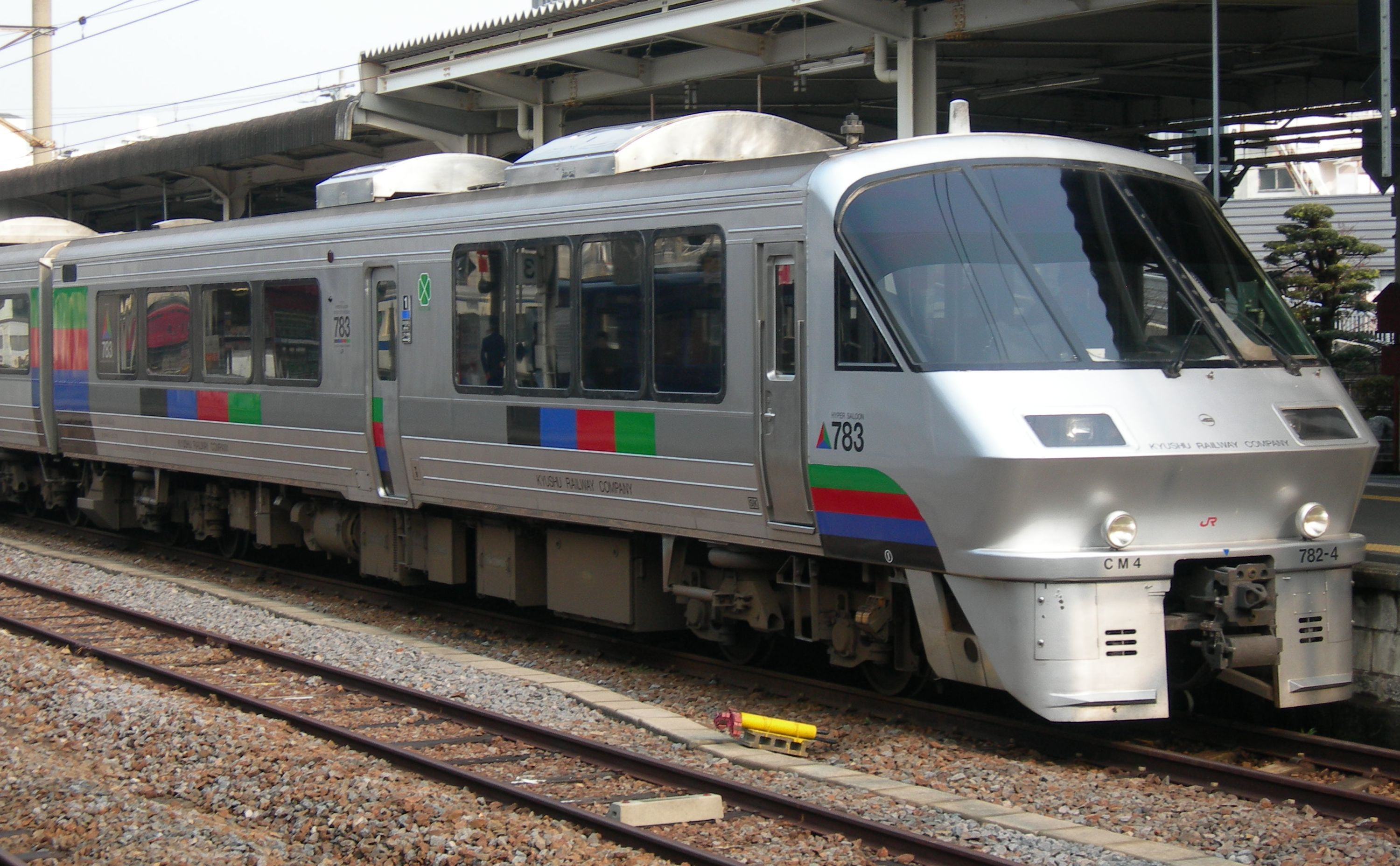 JR Kyushu 783 series EMU set CM4 on a "Kamome" service at Nagasaki Station